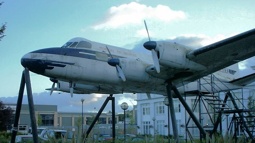 A De Havilland Heron, a small (less than 20 seats) airliner of the 1950s, displayed outside Airport House, the former terminal building of Croydon Airport. Photographed 2002 July 10 19:15 (UTC), ie. near sunset.